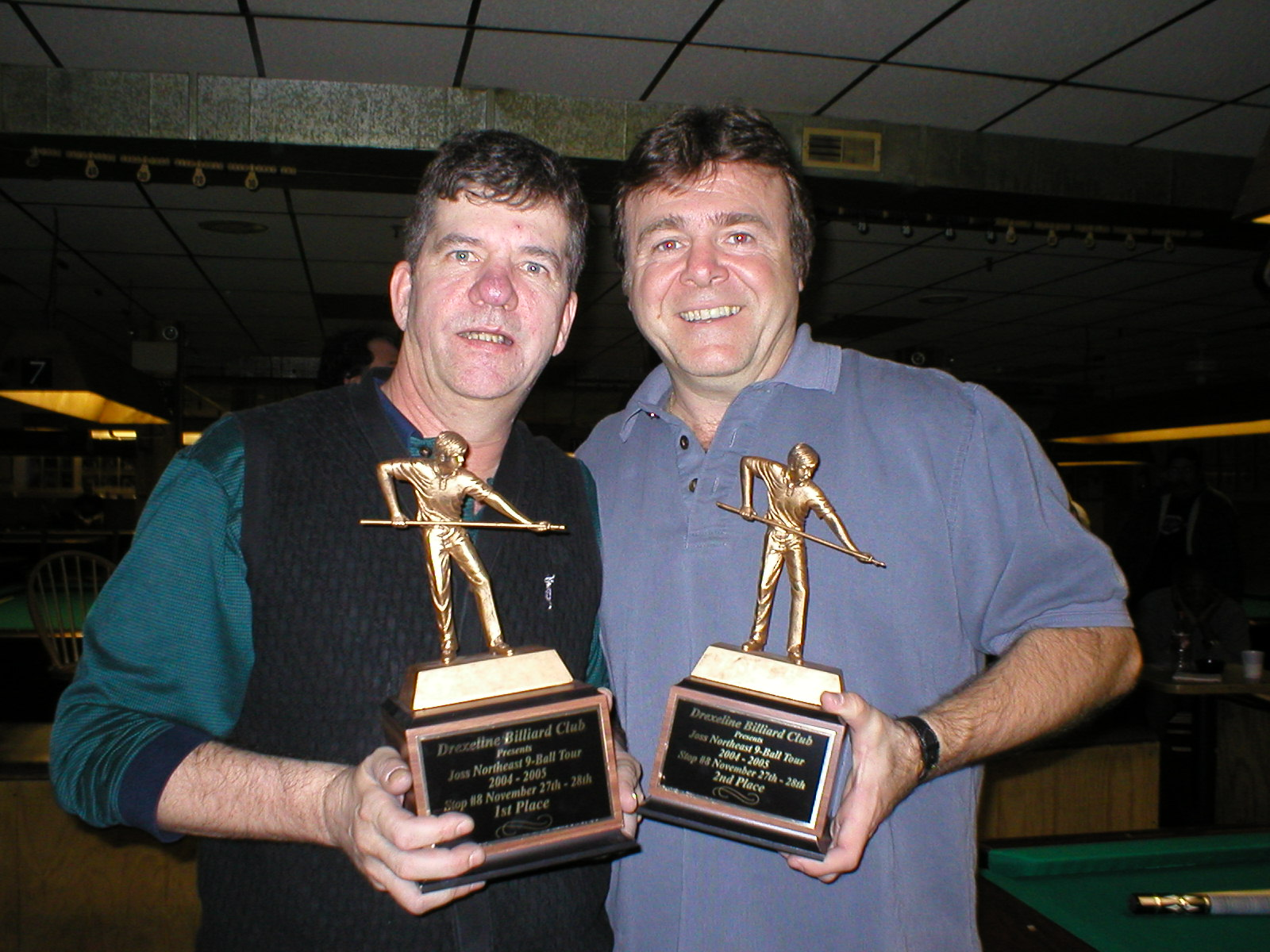 Keith McCready first place and Allen Hopkins second place at 2004 Joss Northeast Nine-Ball Tour event in Drexel Hills, Pennsylvania in 2004